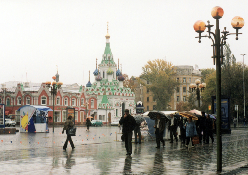 German Street, Saratov, Russia